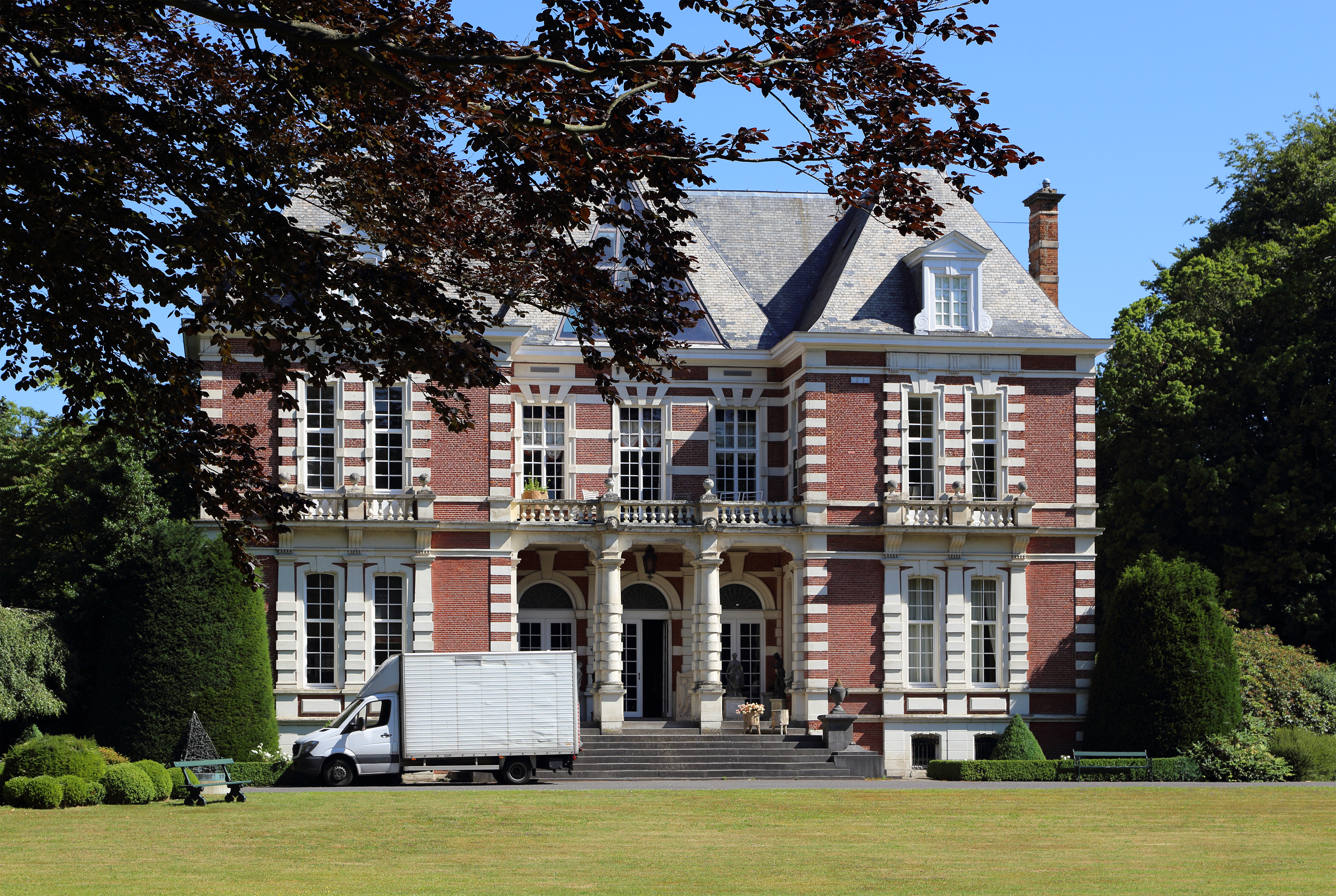 Snellegem (municipality of Jabbeke, Belgium): Snellegem Castle